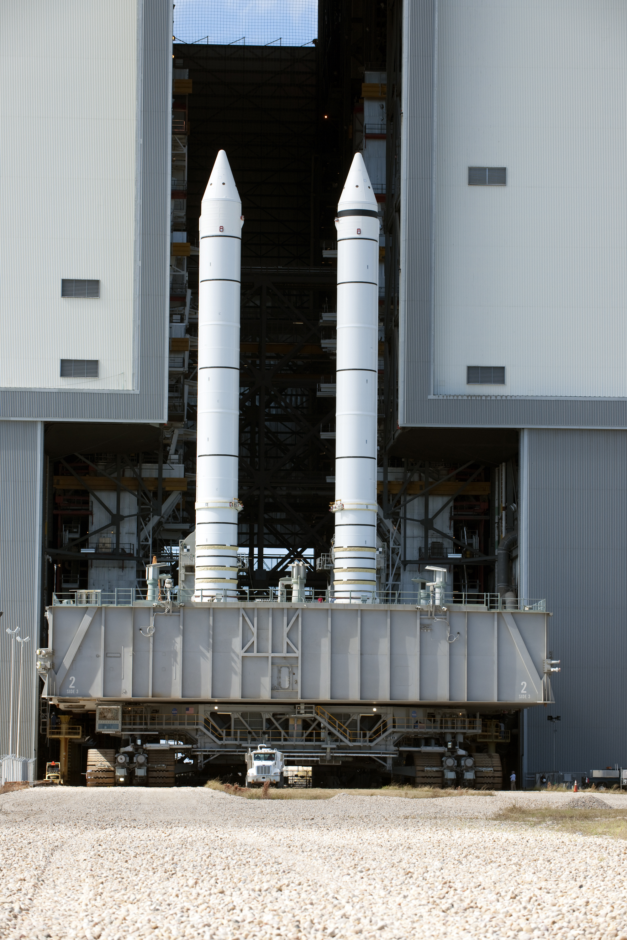 CAPE CANAVERAL, Fla. -- At NASA's Kennedy Space Center in Florida, a crawler-transporter moves a mobile launcher platform with two solid rocket boosters perched on top from the Vehicle Assembly Building's (VAB) High Bay 1 to High Bay 3. Inside the VAB, the boosters will be joined to an external fuel tank next month in preparation for space shuttle Endeavour's STS-134 mission to the International Space Station targeted to launch in February, 2011. For more information visit